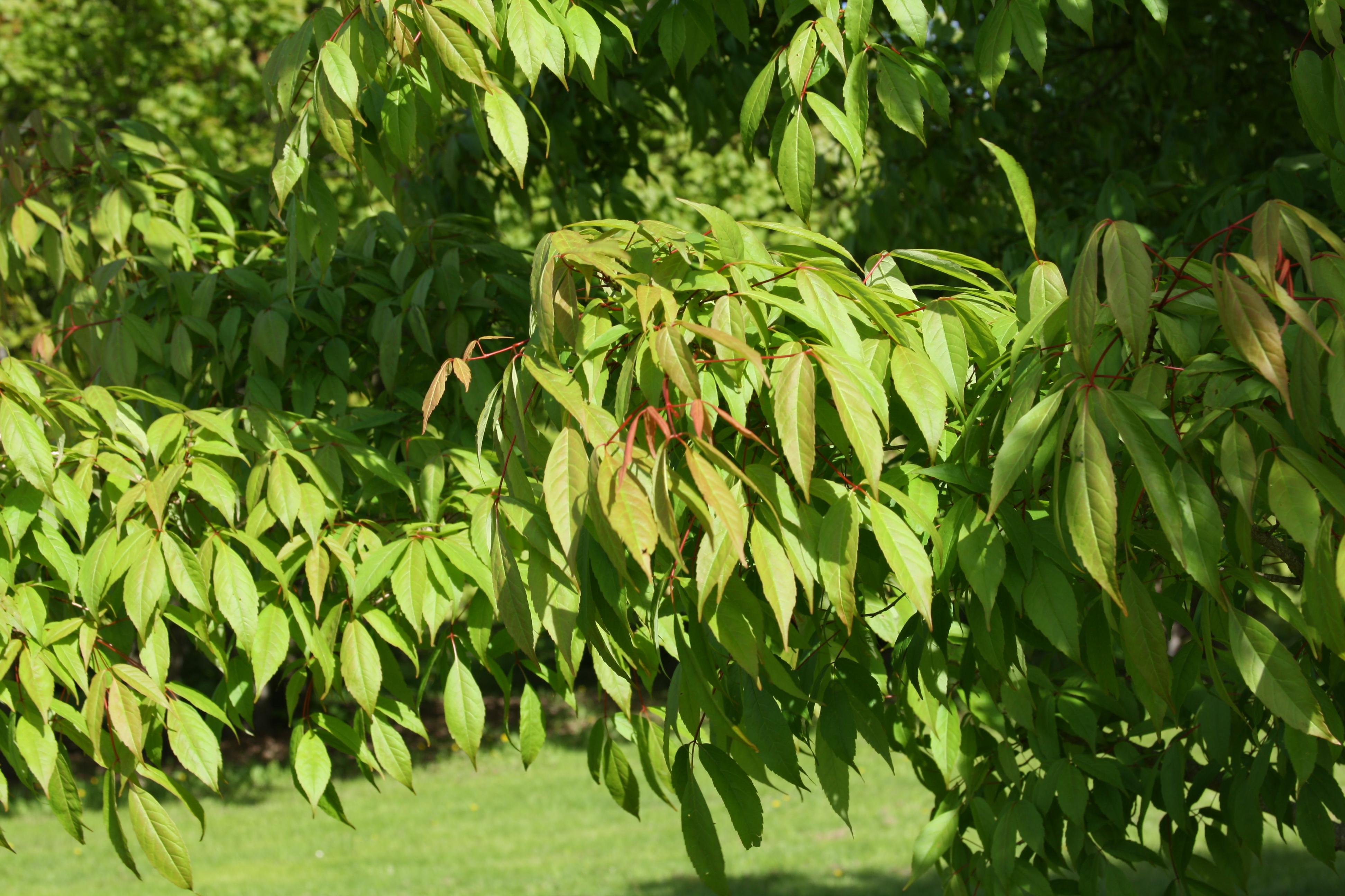 Foliage of the Manchurian Maple (Acer mandshuricum), Botanical garden of Tallinn, Estonia